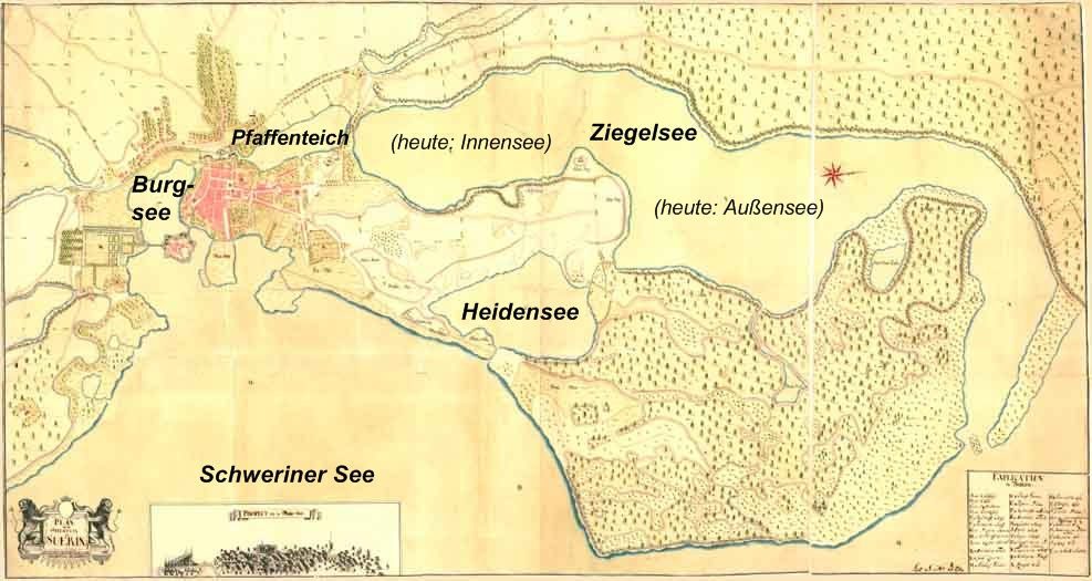 Map of Schwerin around 1750 with additional lettering of the lakes